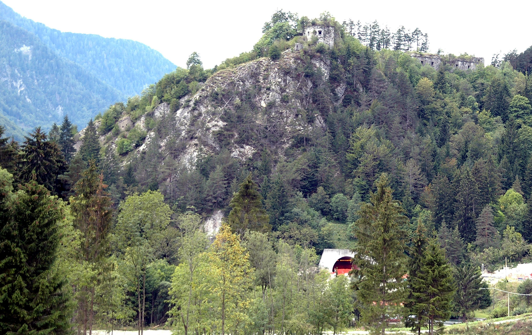 Fort Hensel, municipality Malborghetto in Val Canale, region Friuli-Venezia Giulia, Italy, EU